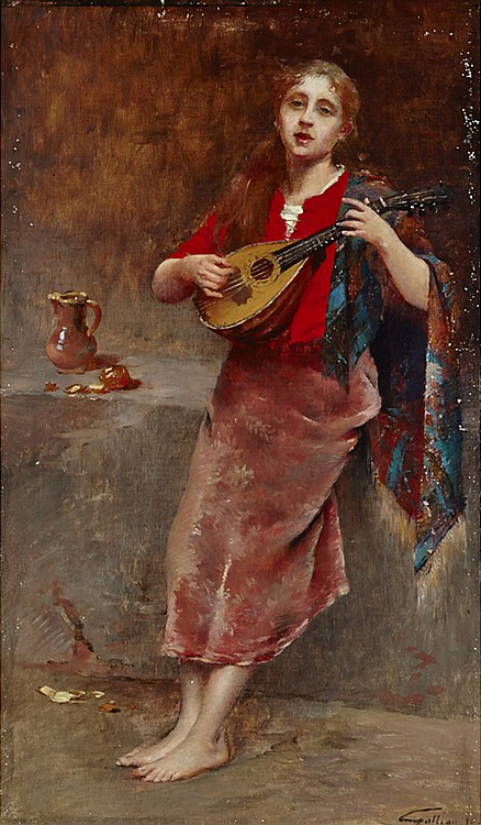 Young peasant girl playing the mandoline